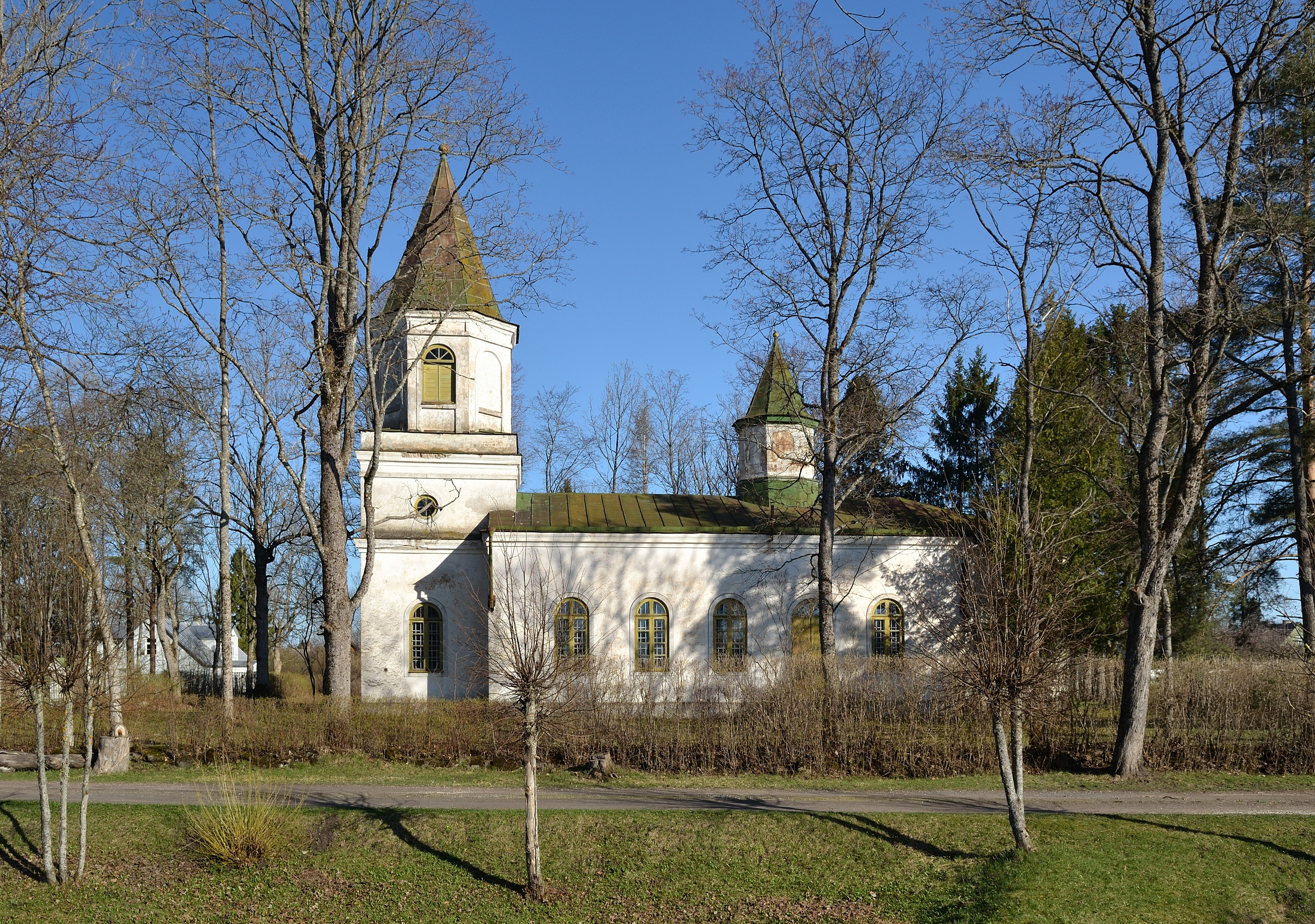 Lelle orthodox church